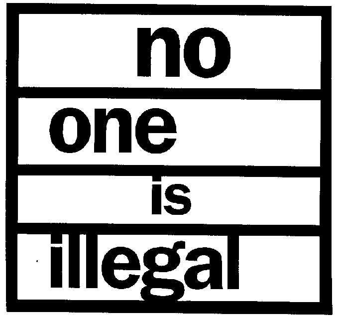 Logo no one is illegal